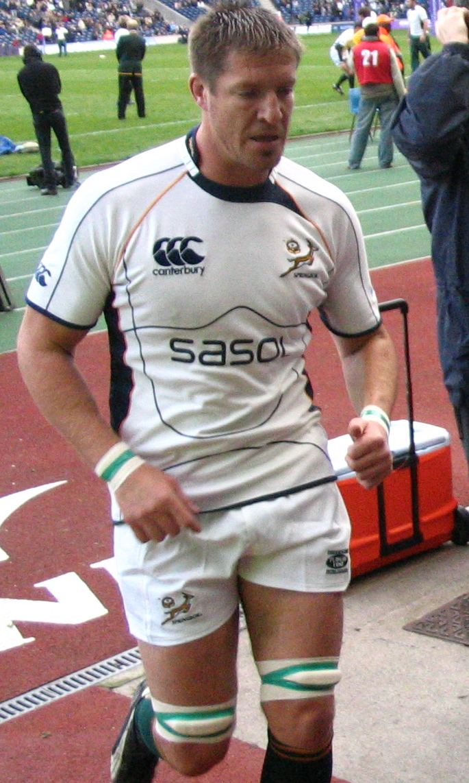 Bakkies Botha wearing Springbok training kit - Murrayfield stadium, Edinburgh.